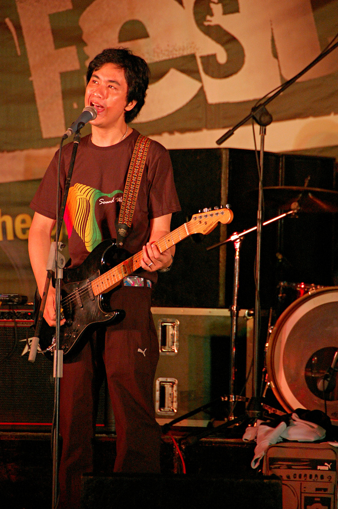 Screen Fest @ Eastwood Aug. 2, 2008 (Ely Buendía)